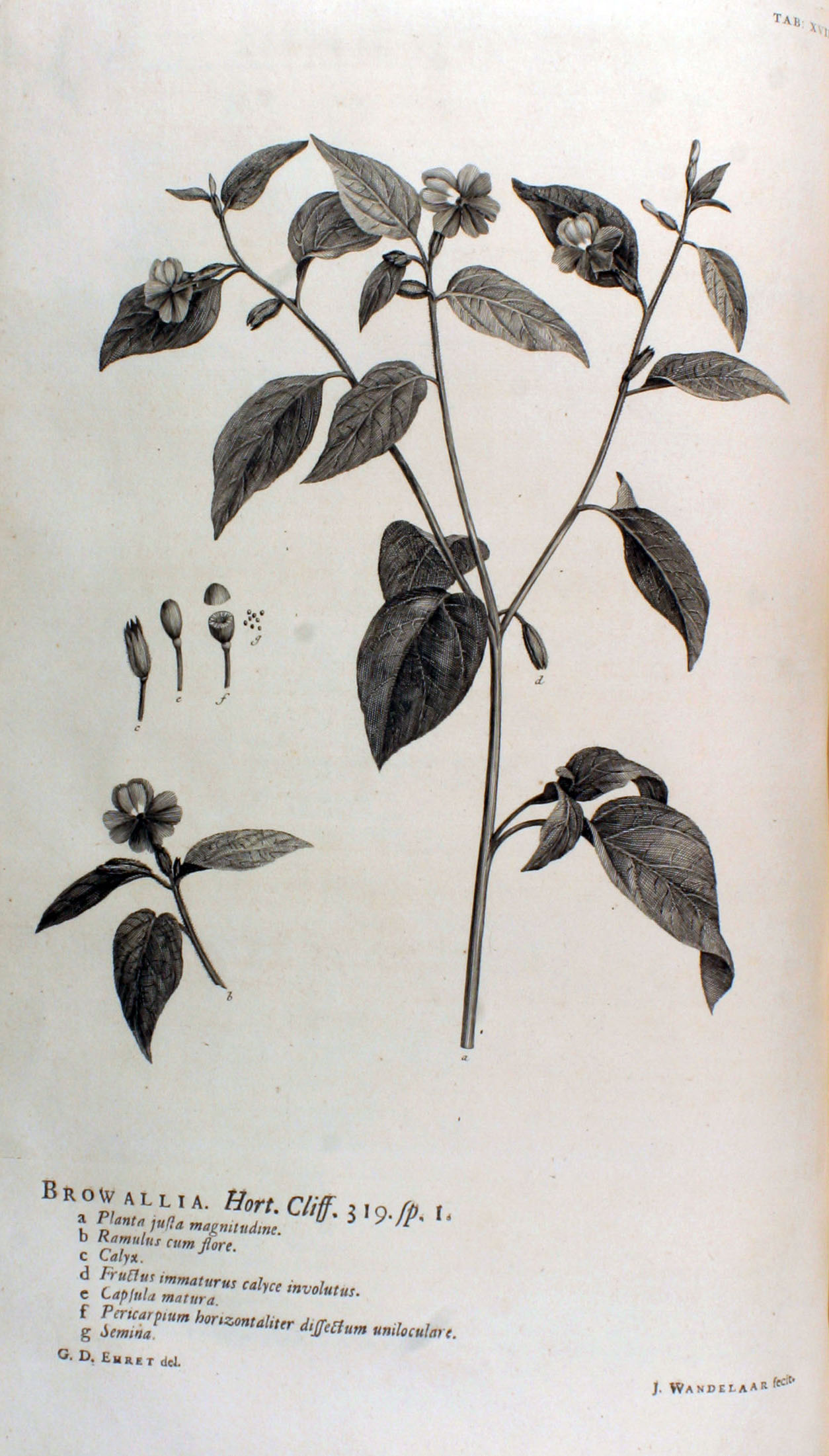 Tafel XVI. aus Carl von Linnés Hortus Cliffortianus, 1. Auflage, 1737, mit Browallia